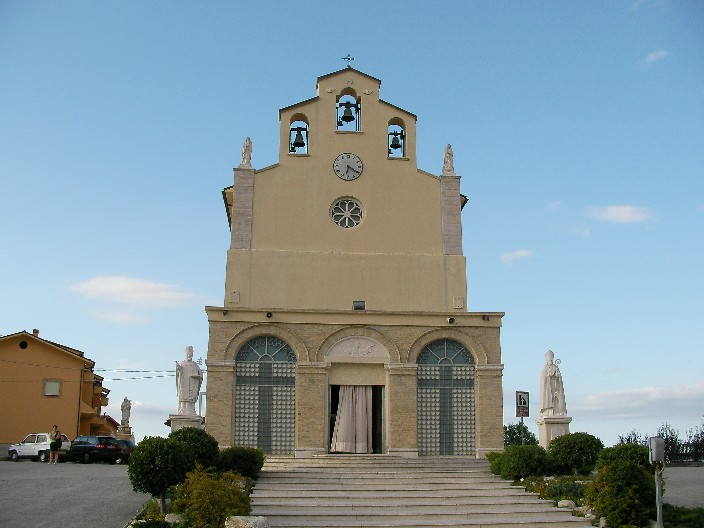 The church of St. Vincenzo Ferrer to Atessa